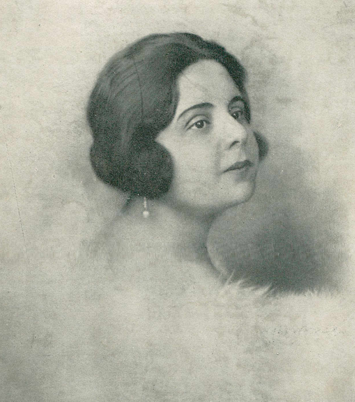 Ada Sari